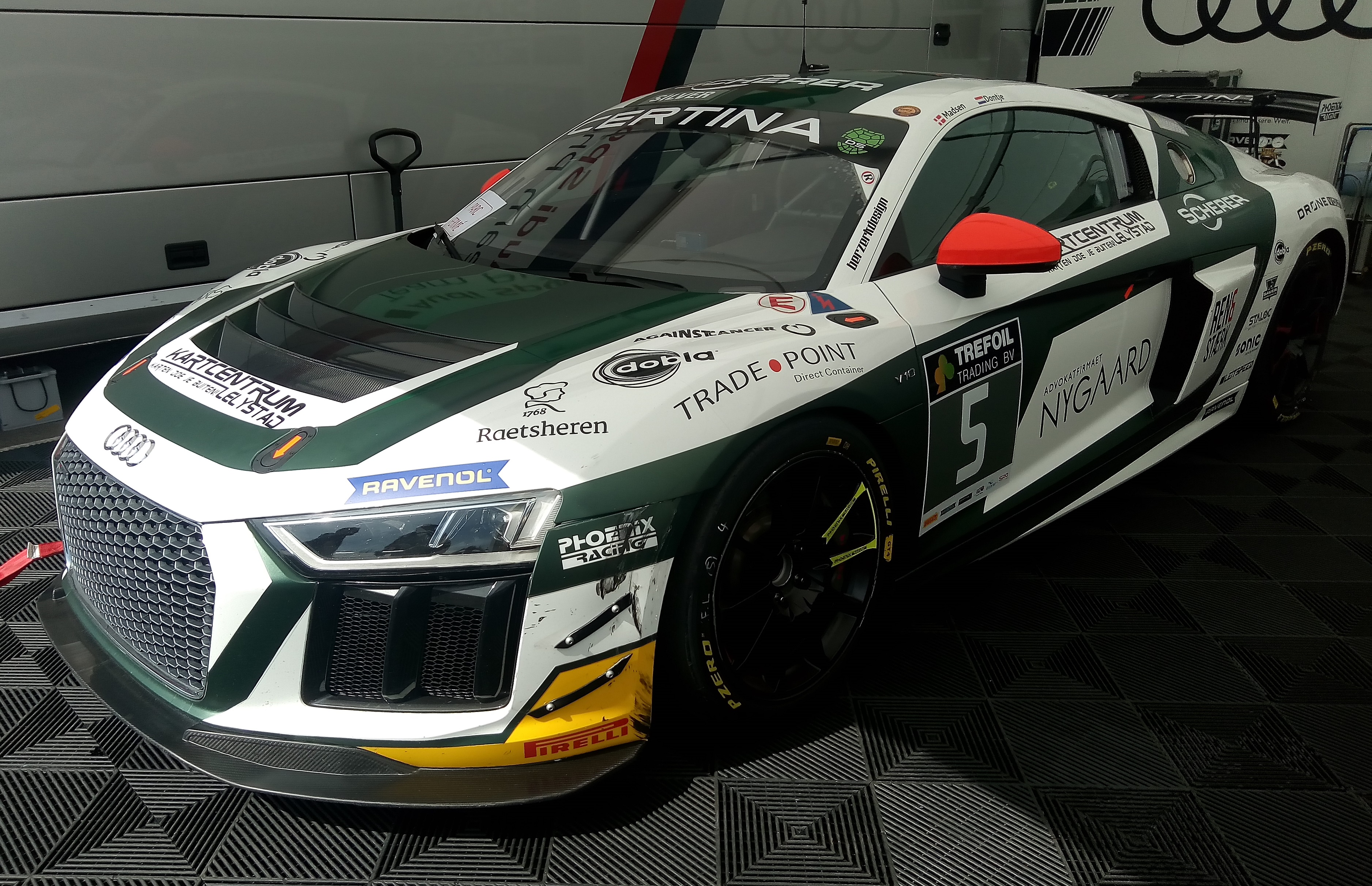 The Audi R8 GT4 as raced in the GT4 European Series by Nicolaj Möller-Madsen and Milan Dontje. The car was entered by Phoenix Racing.